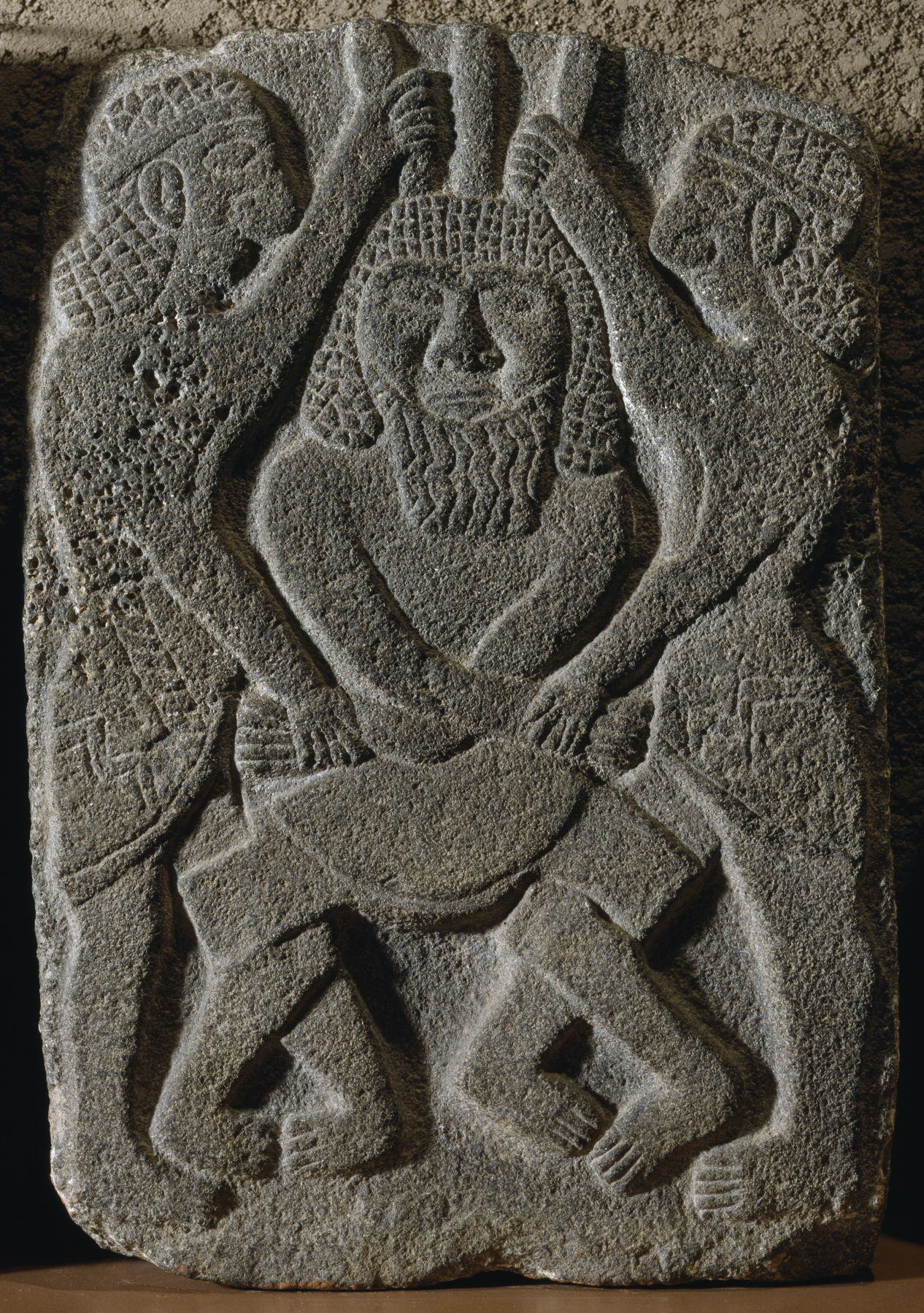 This relief decorated the lower course of the exterior wall of the temple palace of King Kapara. Two heroes pin down a bearded foe, while grabbing at his pronged headdress. The context may be related to the Gilgamesh epic, and display Gilgamesh and Enkidu in their fight with Humbaba.